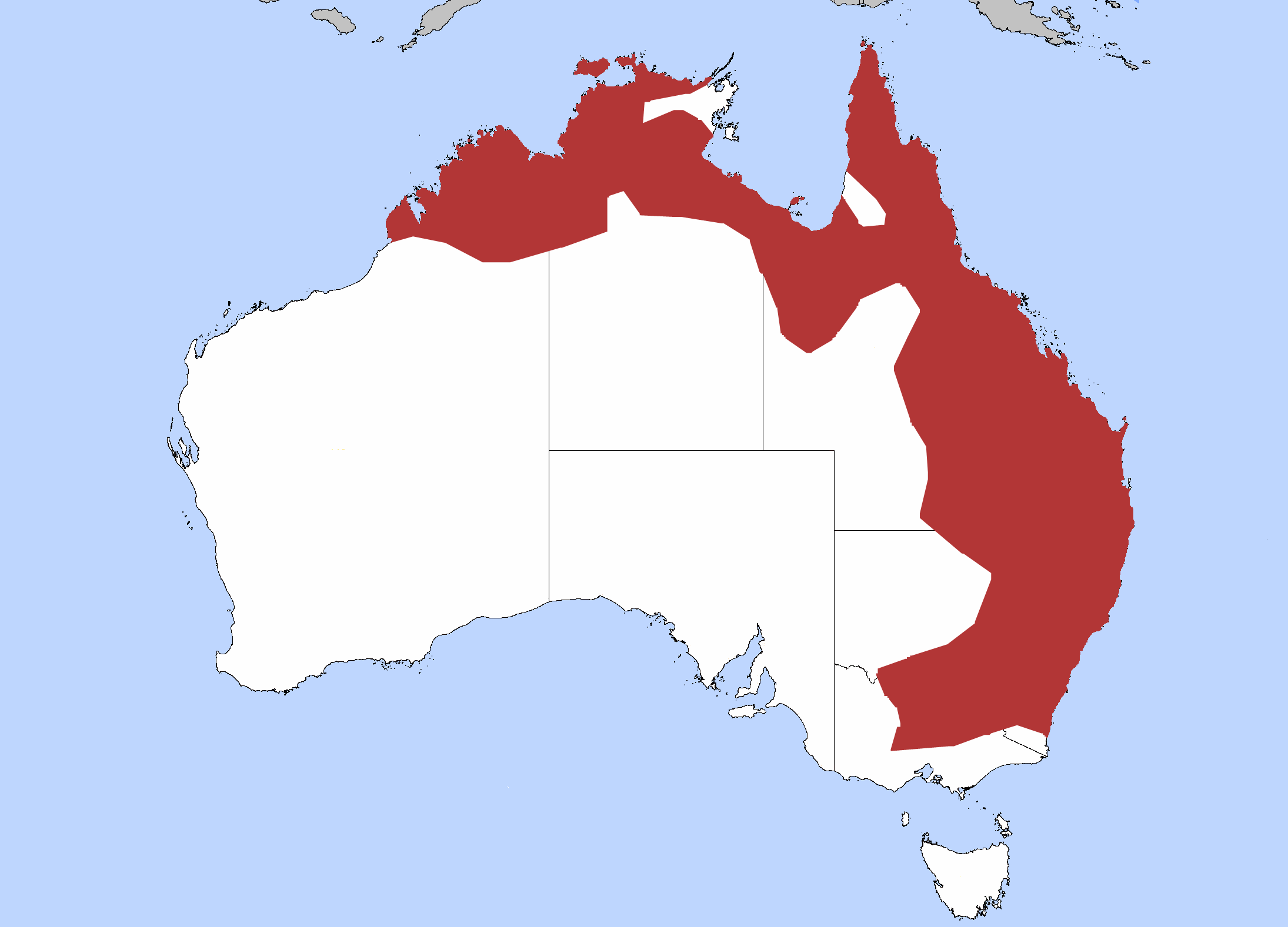 The Australian (not global) distribution of the Dollarbird